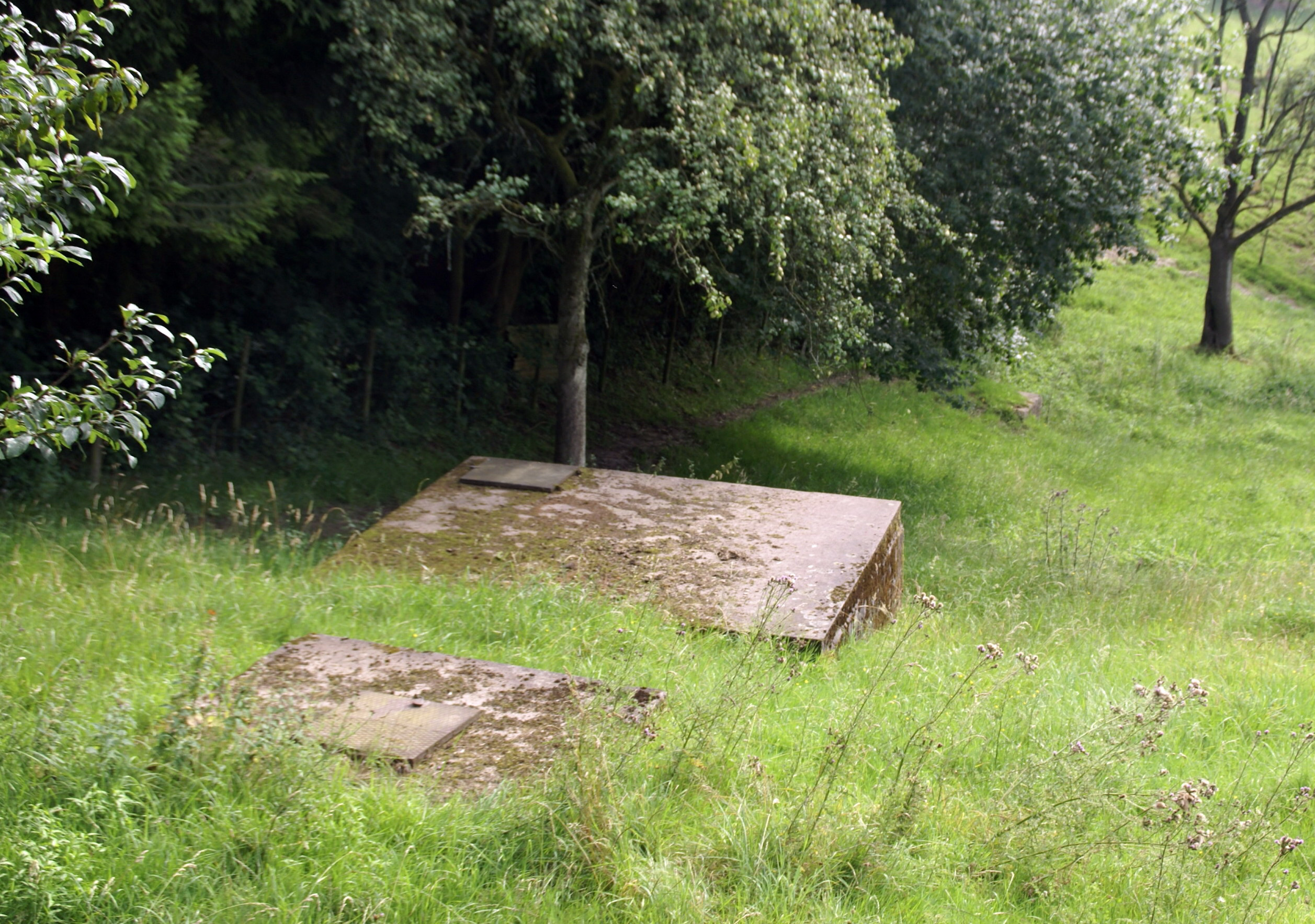 Water lifting unit in Pleiserhohn, Pützbungert: the view down shows the three concrete structures. The first furthest down is largely overgrown with plants. Up follow the structures two and three.